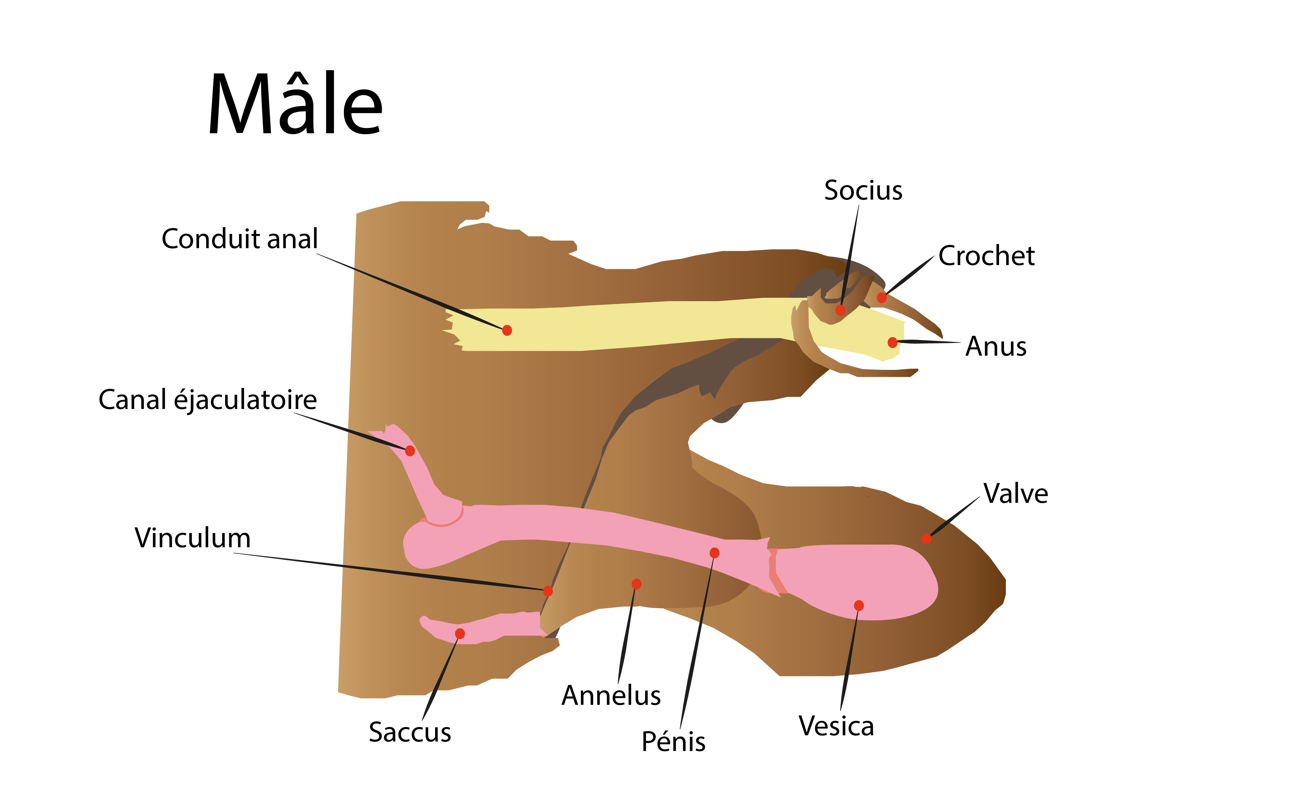 image of Savita Murmure modified